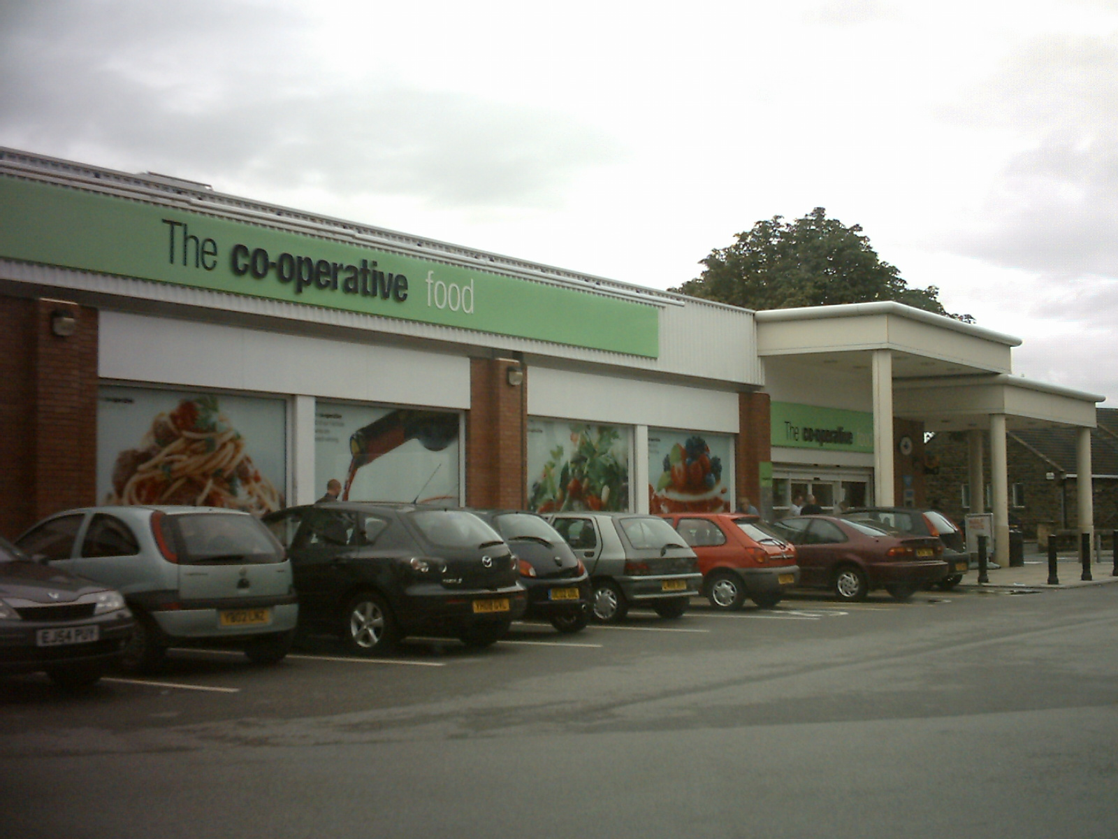 Co-op, Town Street, Beeston, Leeds